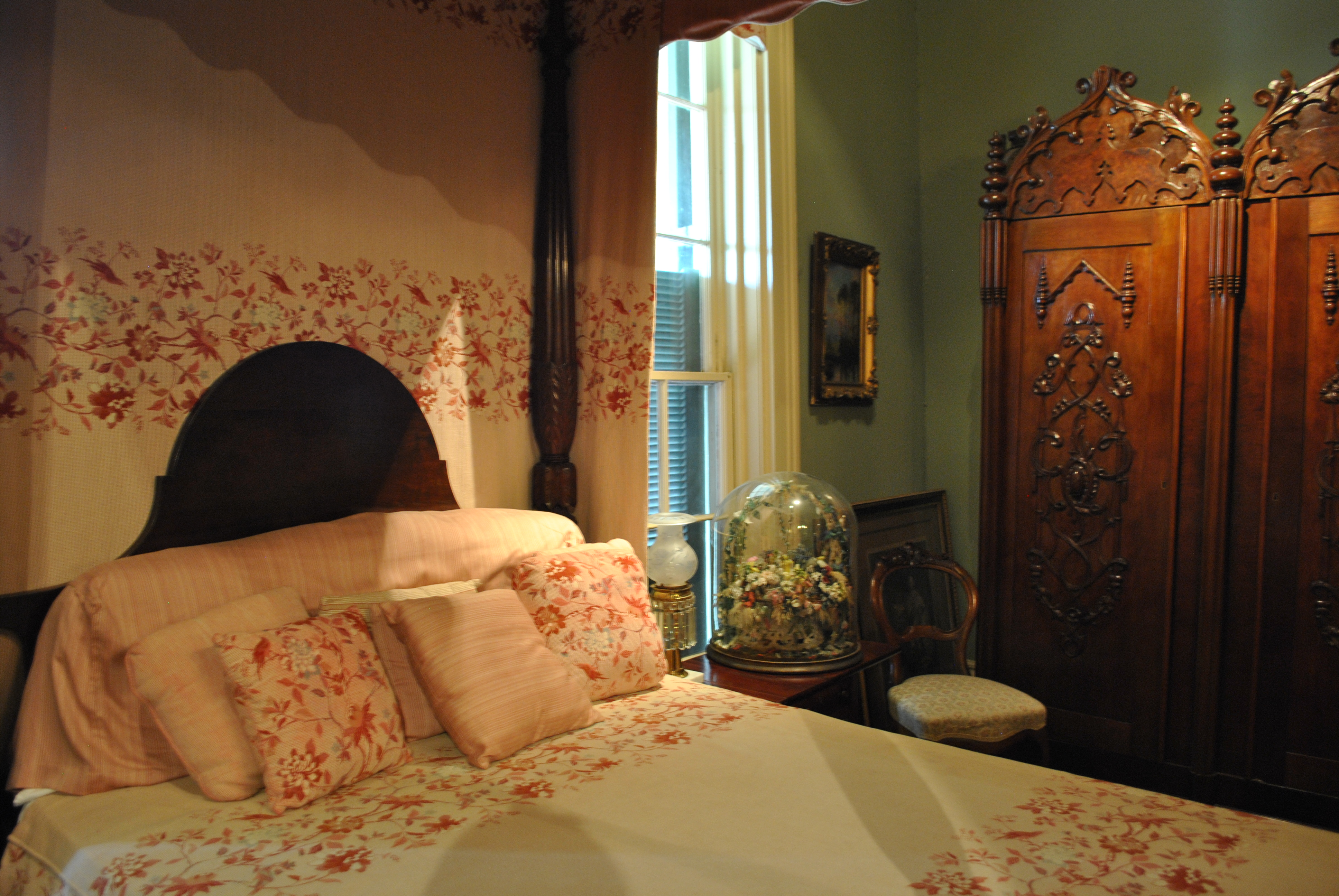 The Houmas, West of Burnside off Louisiana Highways 22 and 44 Burnside